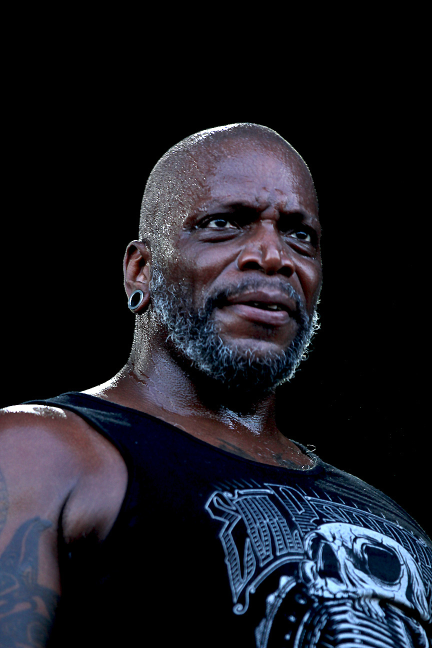 The Brazilian metal band Sepultura at the With Full Force festival 2014 in Roitzschjora/Germany